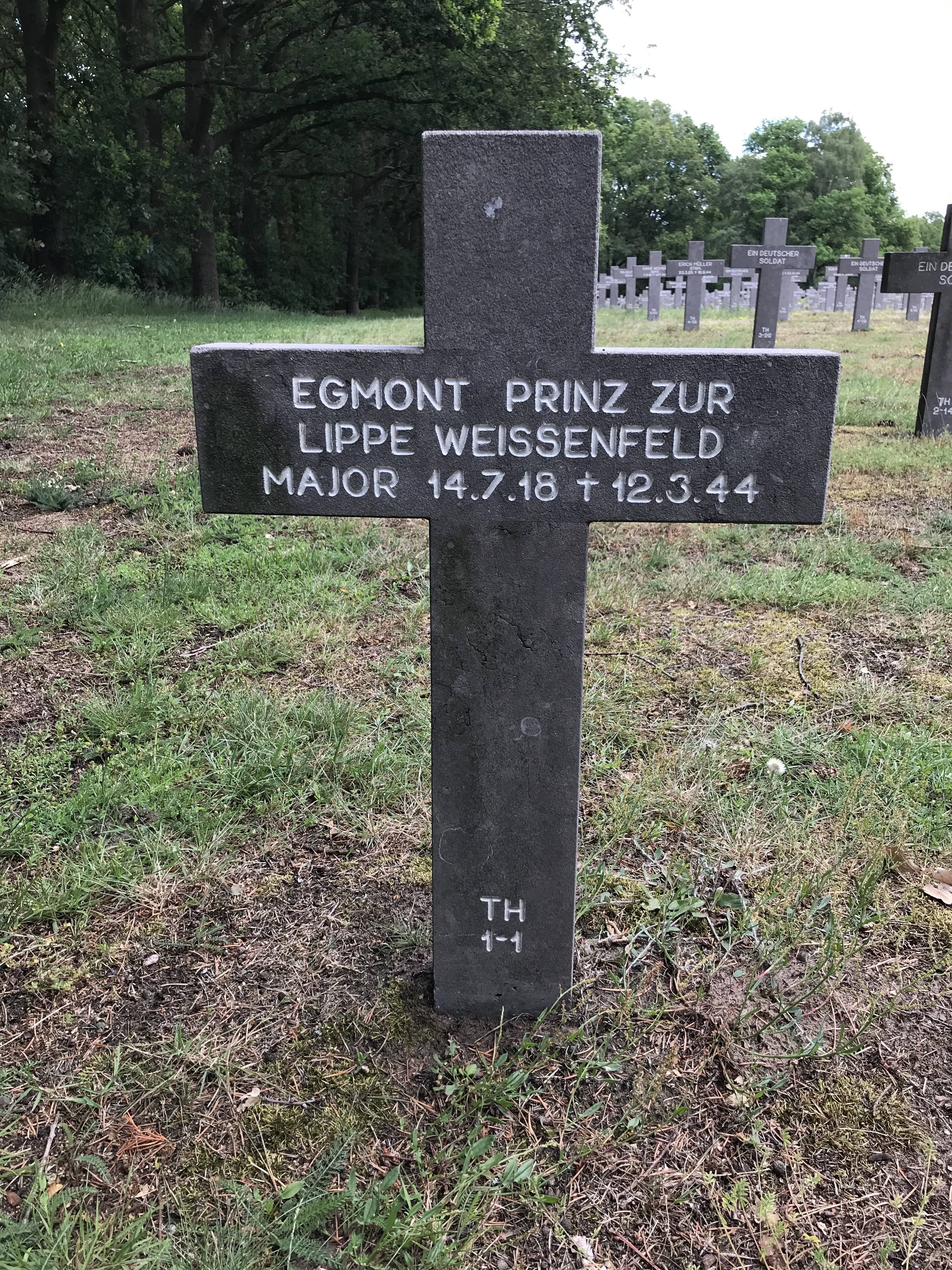 Grave of Egmont Prinz zur Lippe Weissenfeld TH-1-1